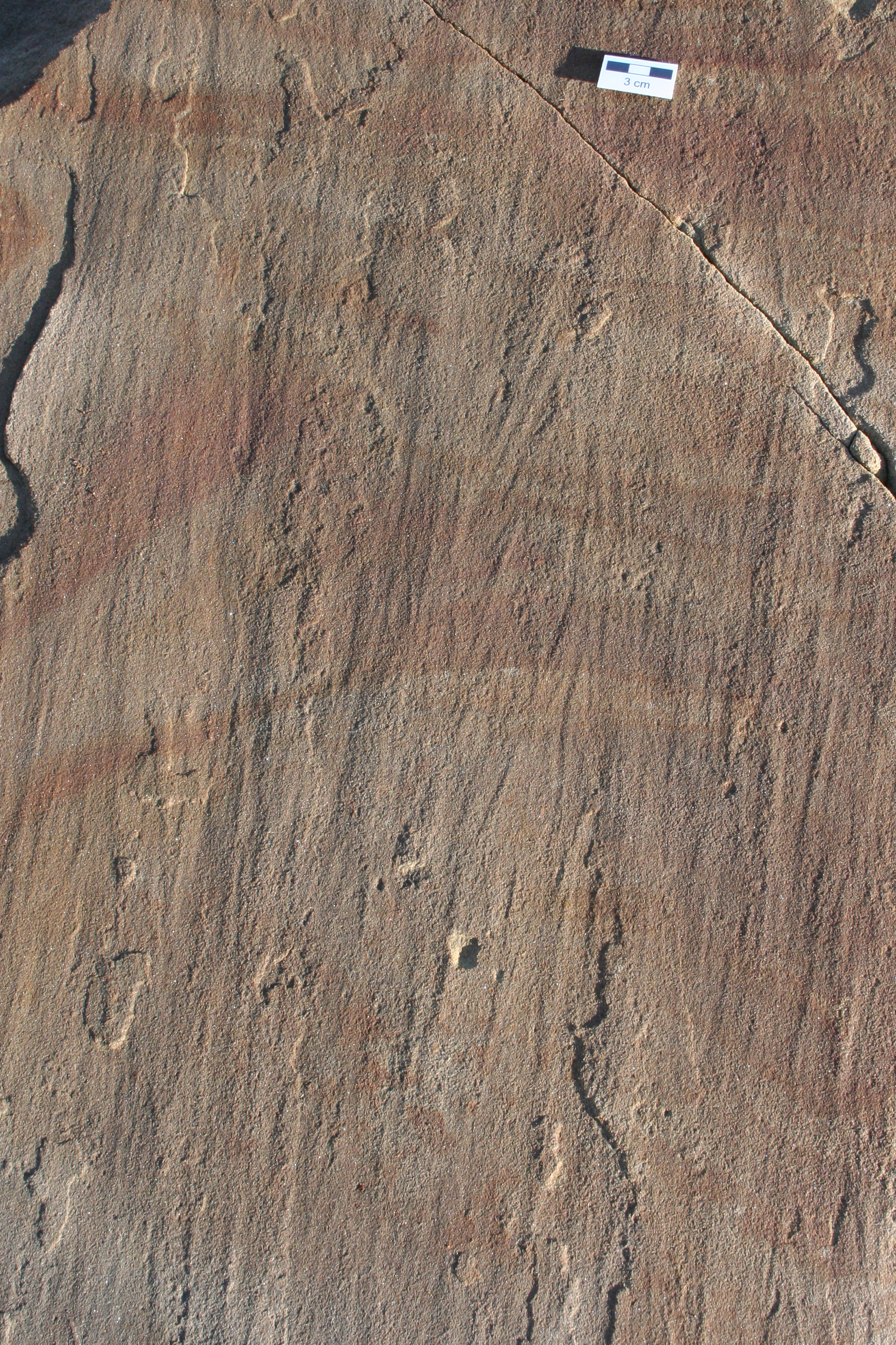 Bedding plane view of primary current lineation in the Inverness Formation (Pennsylvanian), Cape Breton Island, Nova Scotia. Lineation is aligned parallel to paleoflow direction; chevron-shaped areas indicate that flow was from to to bottom.